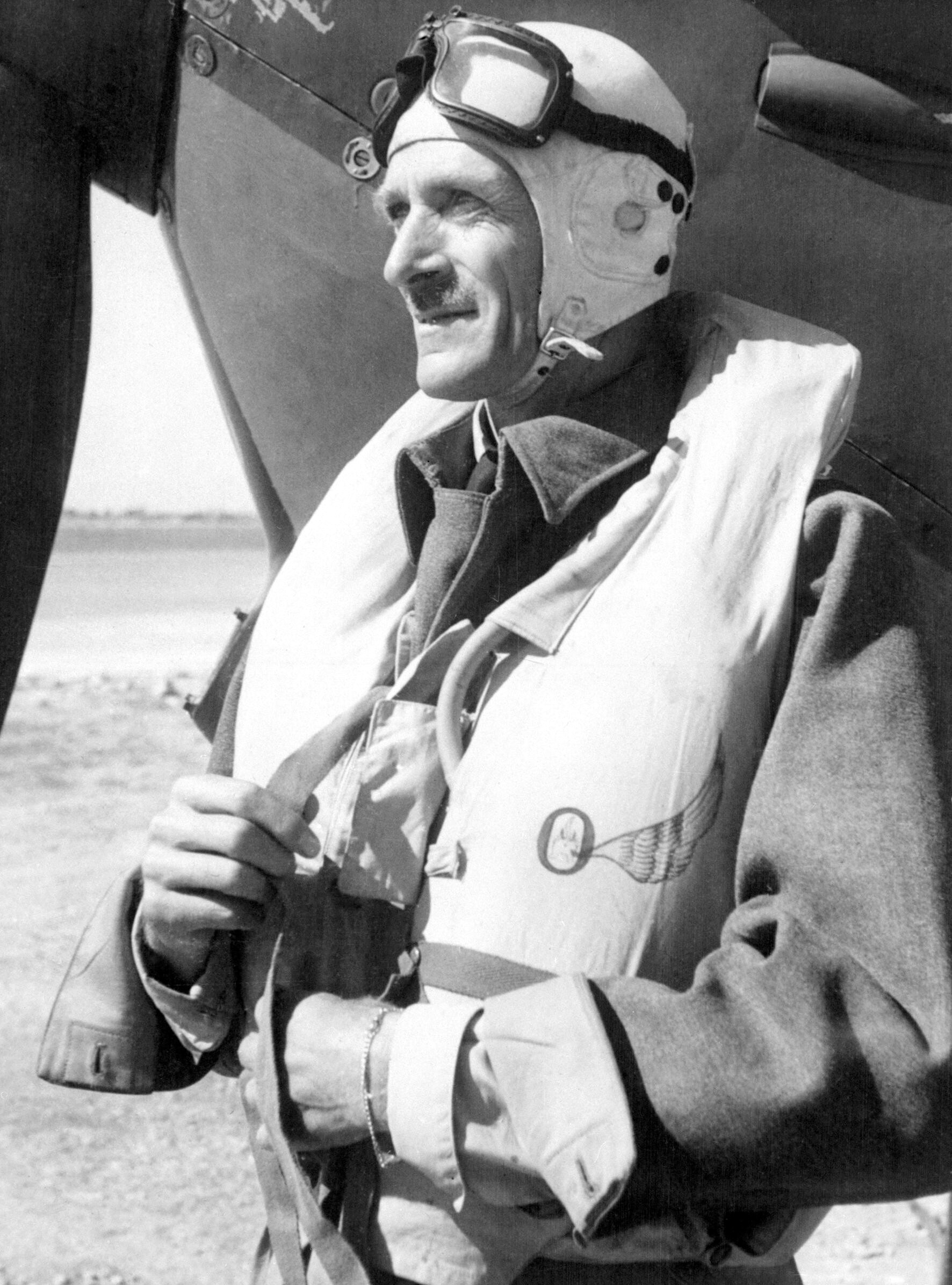 Royal Air Force Air Vice-Marshal (later Air Chief Marshal) Sir Keith Park in front of his Hurricane OK-2 on Malta.